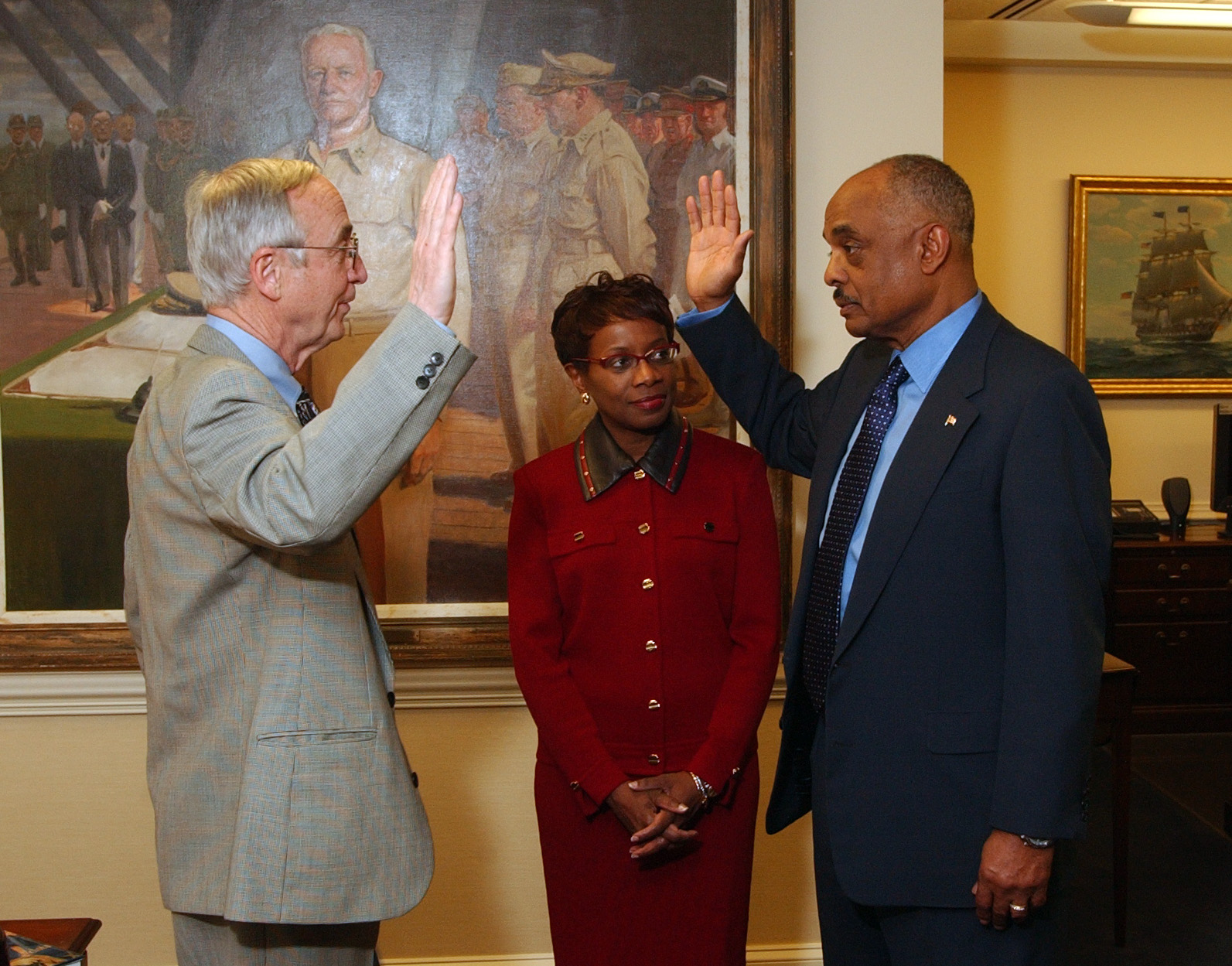 Washington, D.C. (Mar. 1, 2005) – Secretary of the Navy (SECNAV) Gordon England swears-in the Honorable B.J. Penn as Assistant Secretary of the Navy (Installations and Environment). In this position, Penn is responsible for formulating policy and procedures for the effective management of Navy and Marine Corps real property, housing and other facilities; environmental protection ashore and afloat; and occupational health for both military and civilian personnel; and timely completion of closures and realignments of installations under base closure laws. U.S. Navy photo by Chief Journalist Craig P. Strawser (RELEASED)